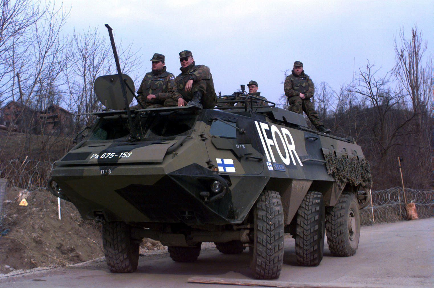 A SISU XA-180 APC. Finnish soldiers guard the area of the meeting of the Joint Civilian Commission. They are sitting on top of an SISU (XA-180) IFOR (implementation Force) armored personnel carrier at a checkpoint situated in the Nordic Polish Brigade area of operation near the town of Doboj, Bosnia-Herzegovina on March 26, 1996 during Operation Joint Endeavor.